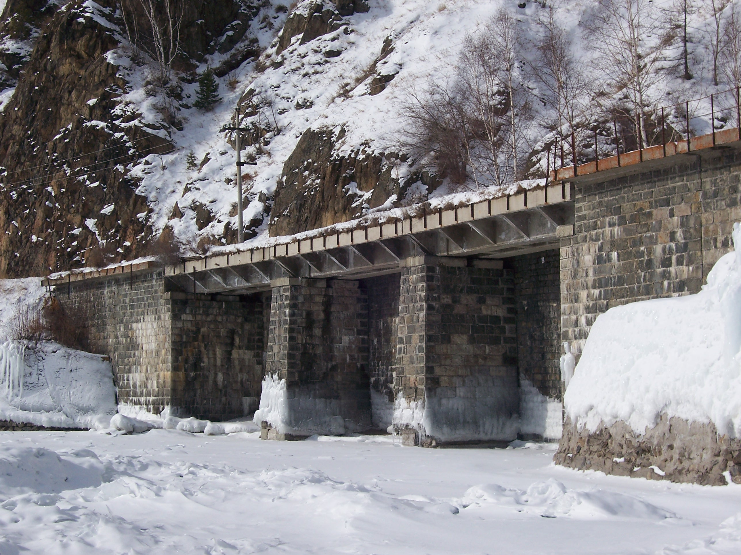 Baikal Railway near Baikal Port